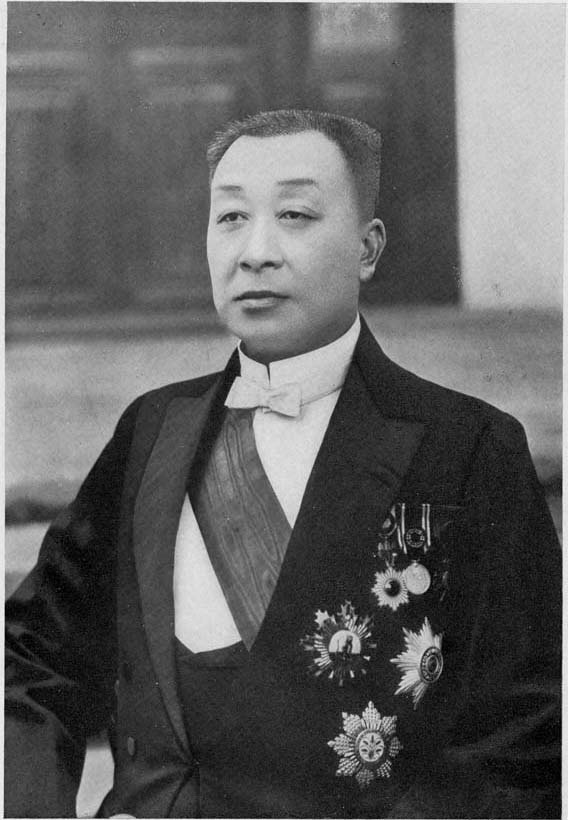 Zhu Qinglan